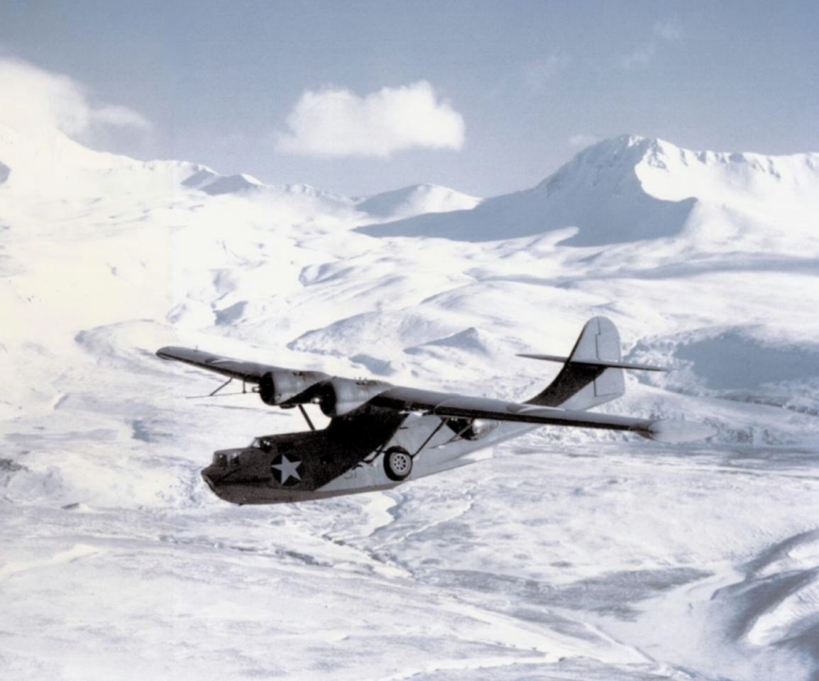 A Consolidated PBY-5A Catalina of Patrol Squadron VP-61 in the Aleutians in March 1943. VP-61 was based at Umnak Island, Alaska (USA), at that time.